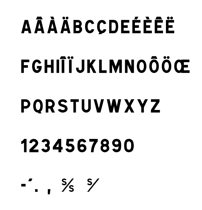 Character font L1 used on French road signs.